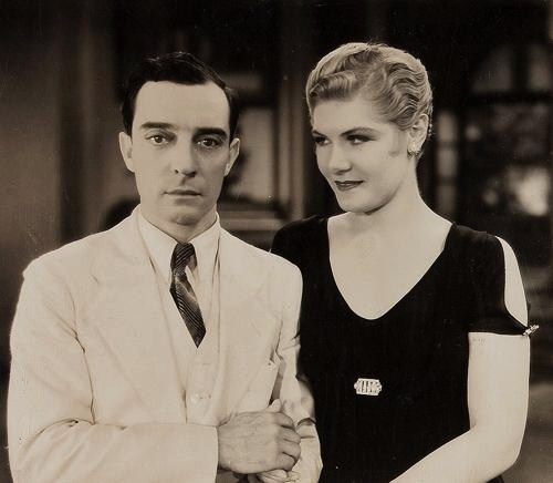 Buster Keaton & Dorothy Christy in Parlor, Bedroom and Bath - publicity still (cropped)